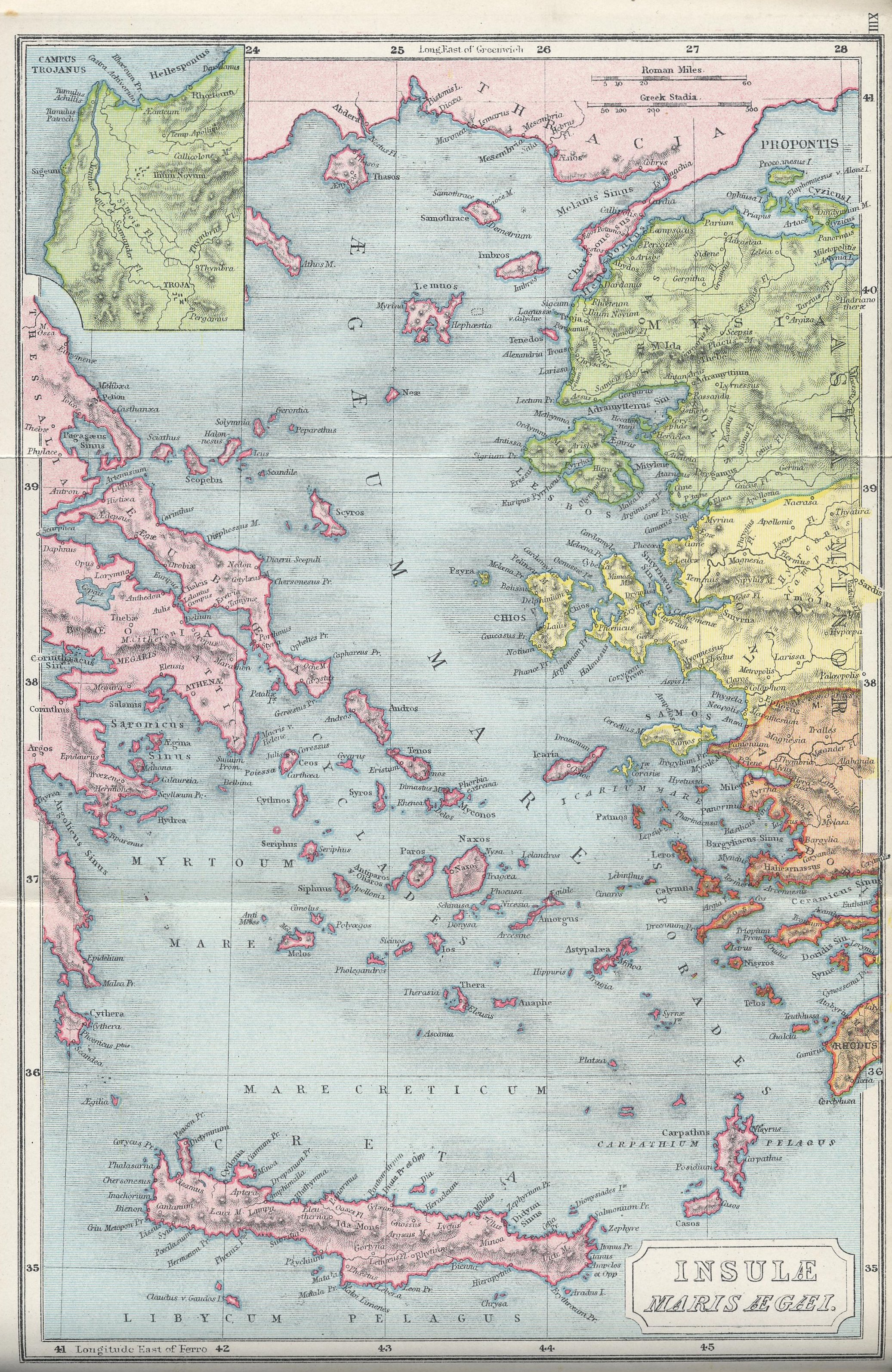 The Atlas of Ancient and Classical Geography by Samuel Butler